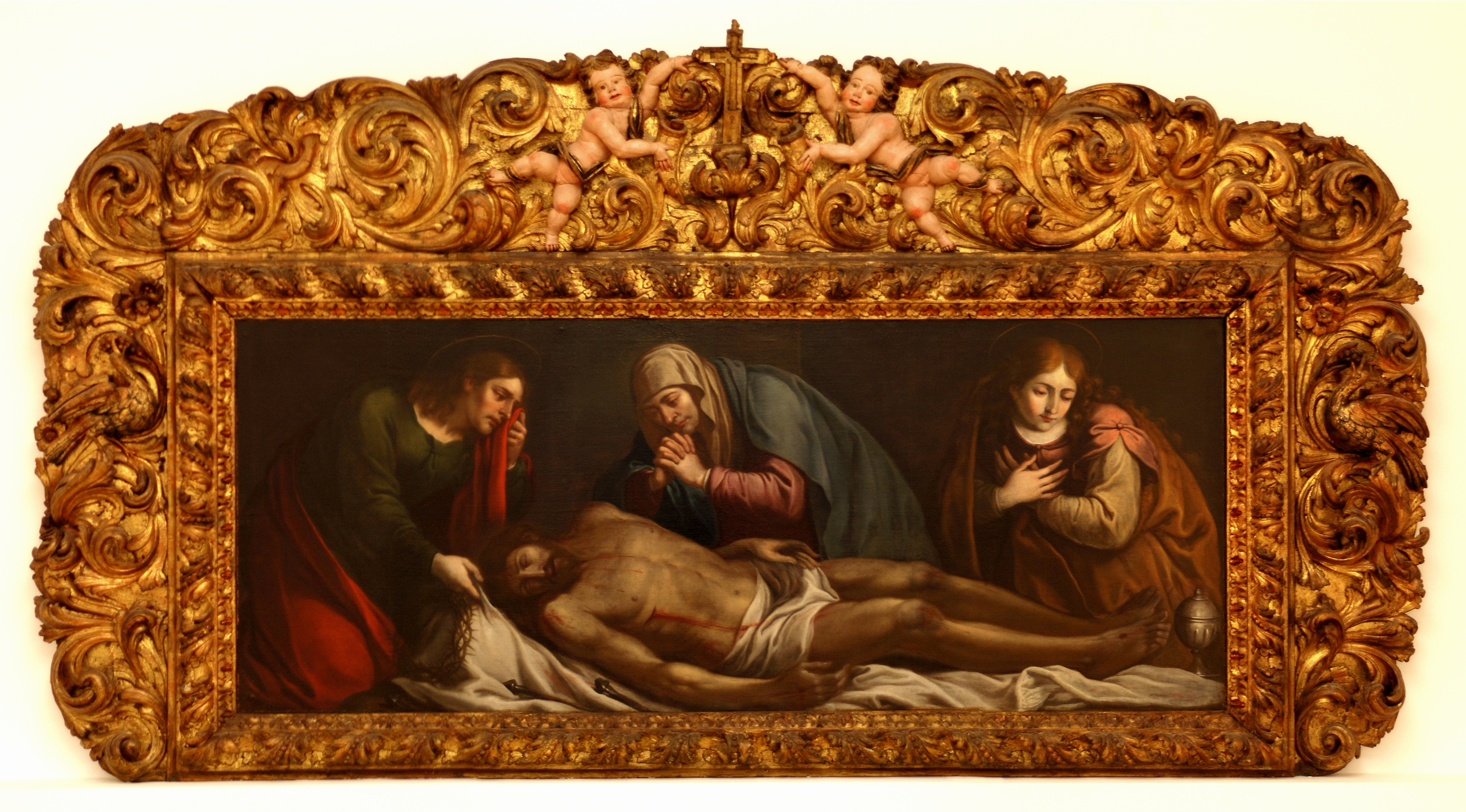 Unknown painter 18th century, probably Spanish, representing St John the Evangelist, the Virgin and Saint Maria Magdalena with the dead Christ. Museu de Aveiro, Portugal.